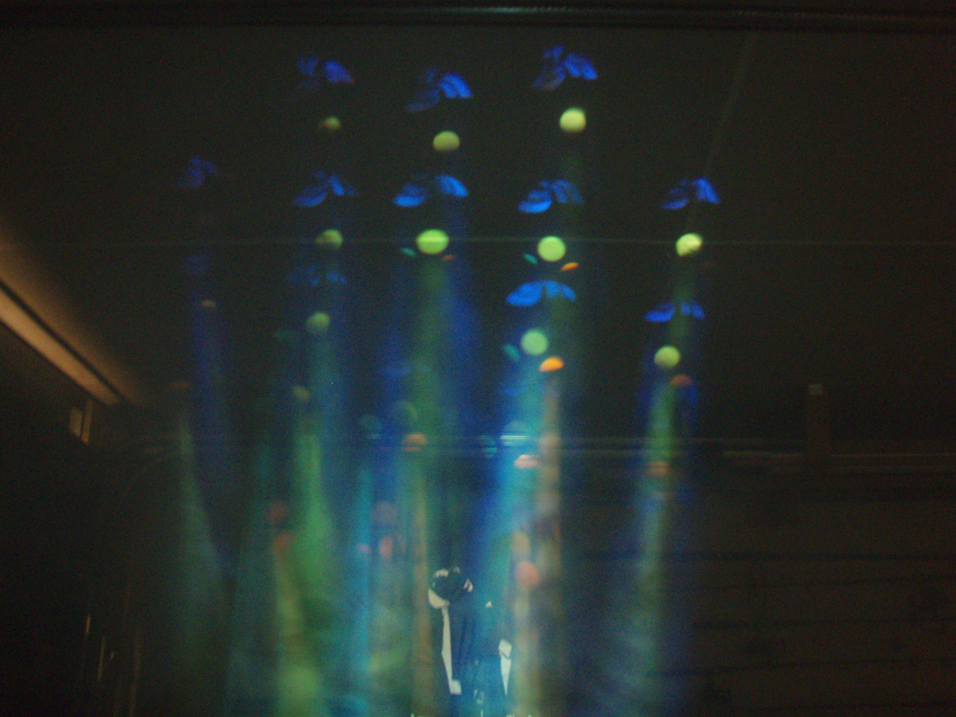 A Gobo being projected through artificial haze.